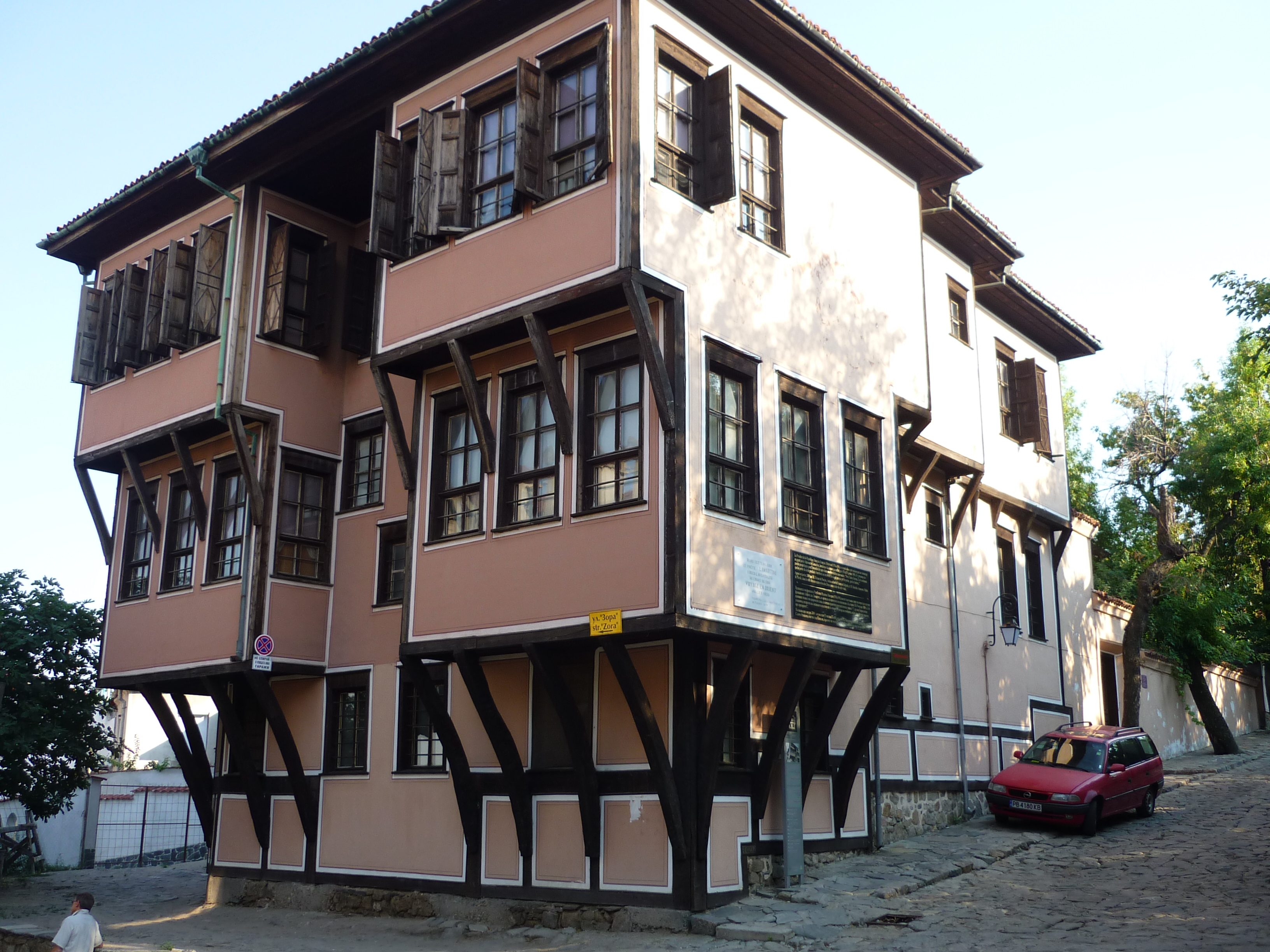 Full view of Lamartine's House - Plovdiv, Bulgaria